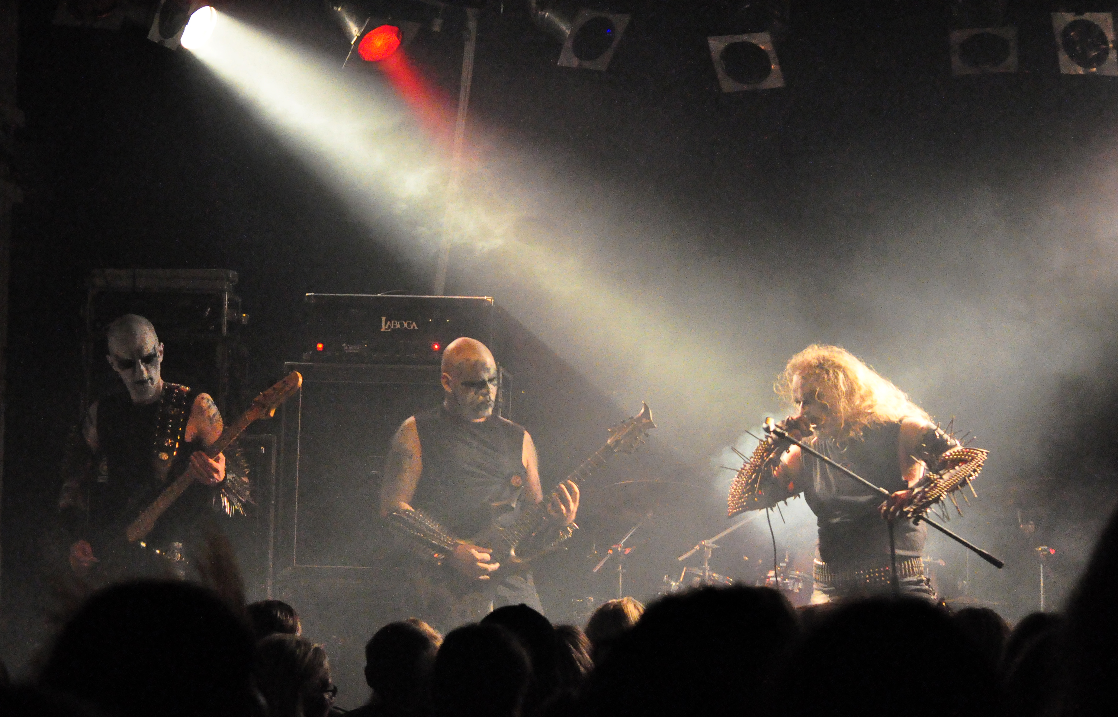 Gorgoroth playing in Rostock, Germany, 2011